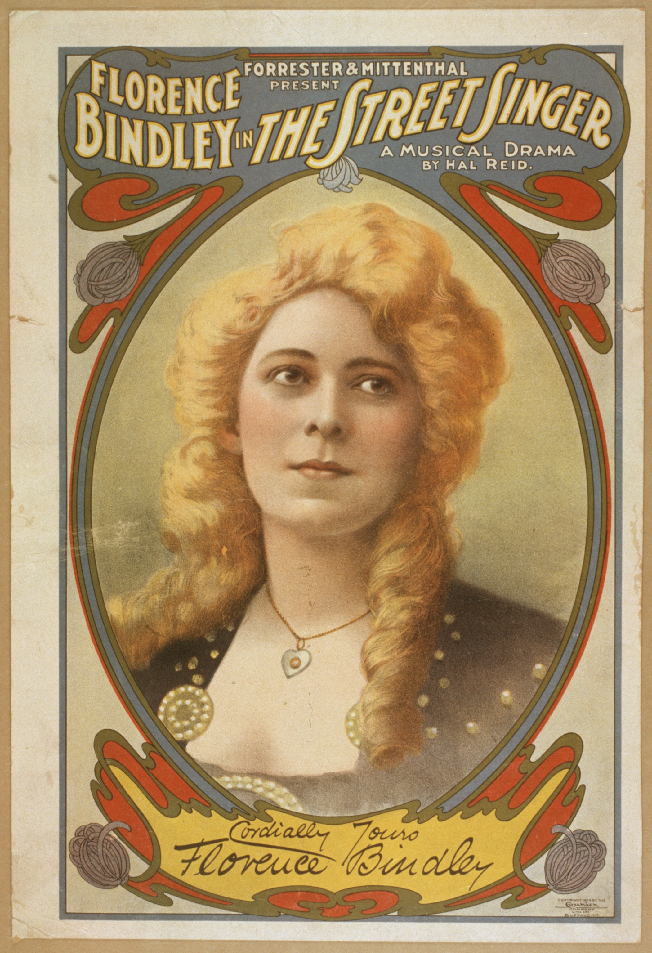 Title: Forrester & Mittenthal present Florence Bindley in The street singer a musical drama by Hal Reid. Abstract: 1 print : color lithograph ; sheet 46 x 31 cm. (poster format)